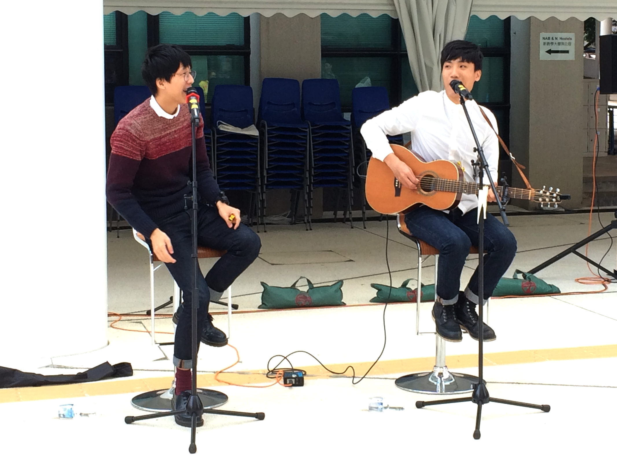 New Youth Barbarshop